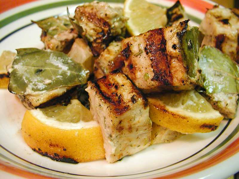 Swordfish - 2001-11-09 From Jon Sullivan's "Herb marinaded grill swordfish. For some reason Ralph's was out of fresh bay leaves, so I ended up using dried ones here. Not the same at all. Darn good just the same. I think I'll serve it with garlic butter on Thanksgiving." Camera: Olympus 2100UV, Not recorded, Lens: Not recorded, Not recorded, Not recorded, ISO Not recorded Keywords: swordfish lemon bayleaf cooking dinner grilled food